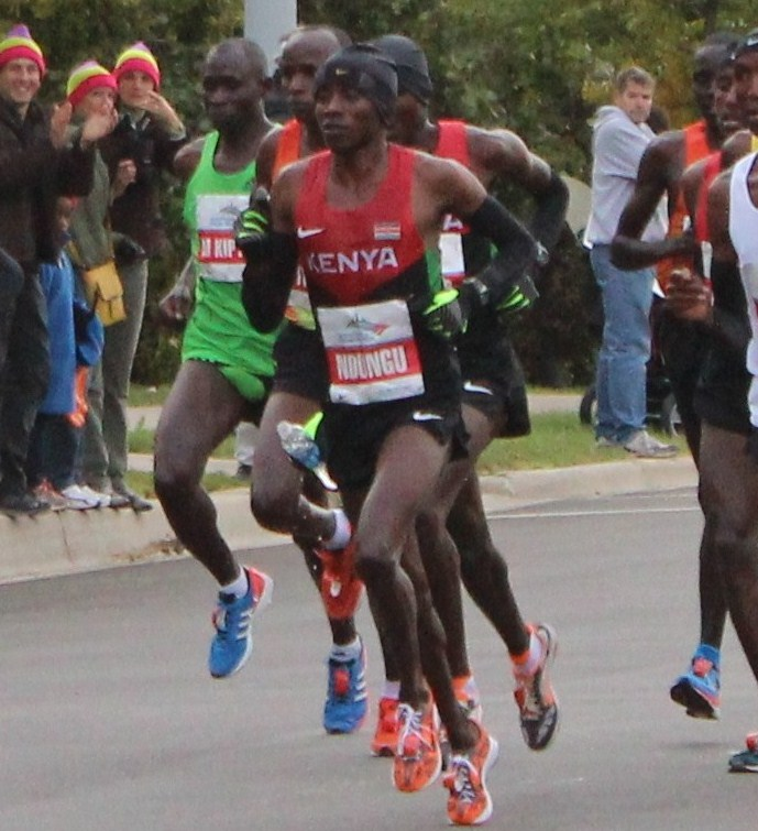 2012 Chicago Marathon - lead men